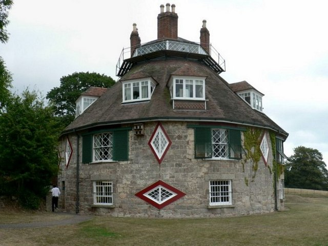 A La Ronde, Summer Lane, Exmouth. This house has 16 sides, and was built for 2 cousins, Jane and Mary Parminter, in 1796. The interior plan allowed them to use each room in turn, following the sun around the house, with the rising sun shining into their bedrooms, then into the morning room etc. It was originally thatched, and a later owner added rooms in the loft and the upper gallery. A very unusual exterior and interior, some of the sash windows are set in the corners, so the rising sash has a corner in it. The house is now owned by the National Trust and is well worth a visit. See the National Trust website